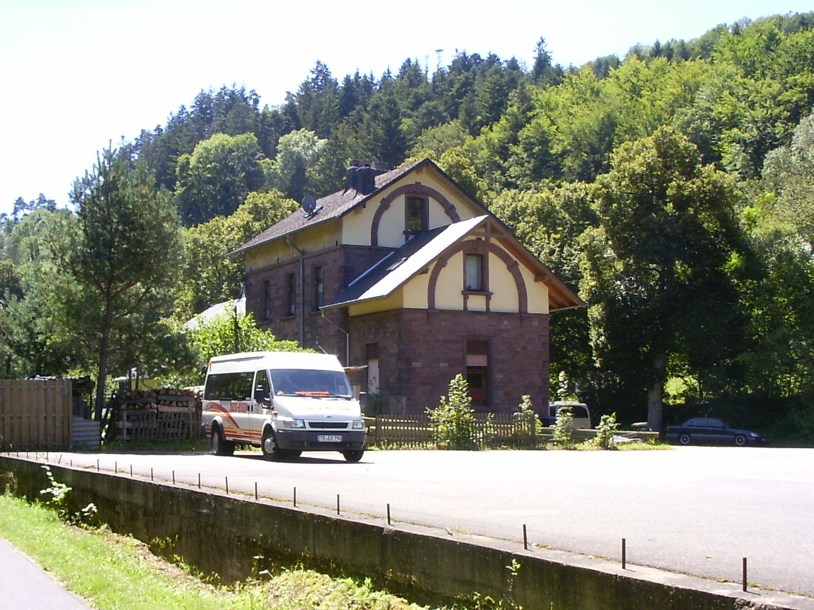 Former train station Pluwigerhammer